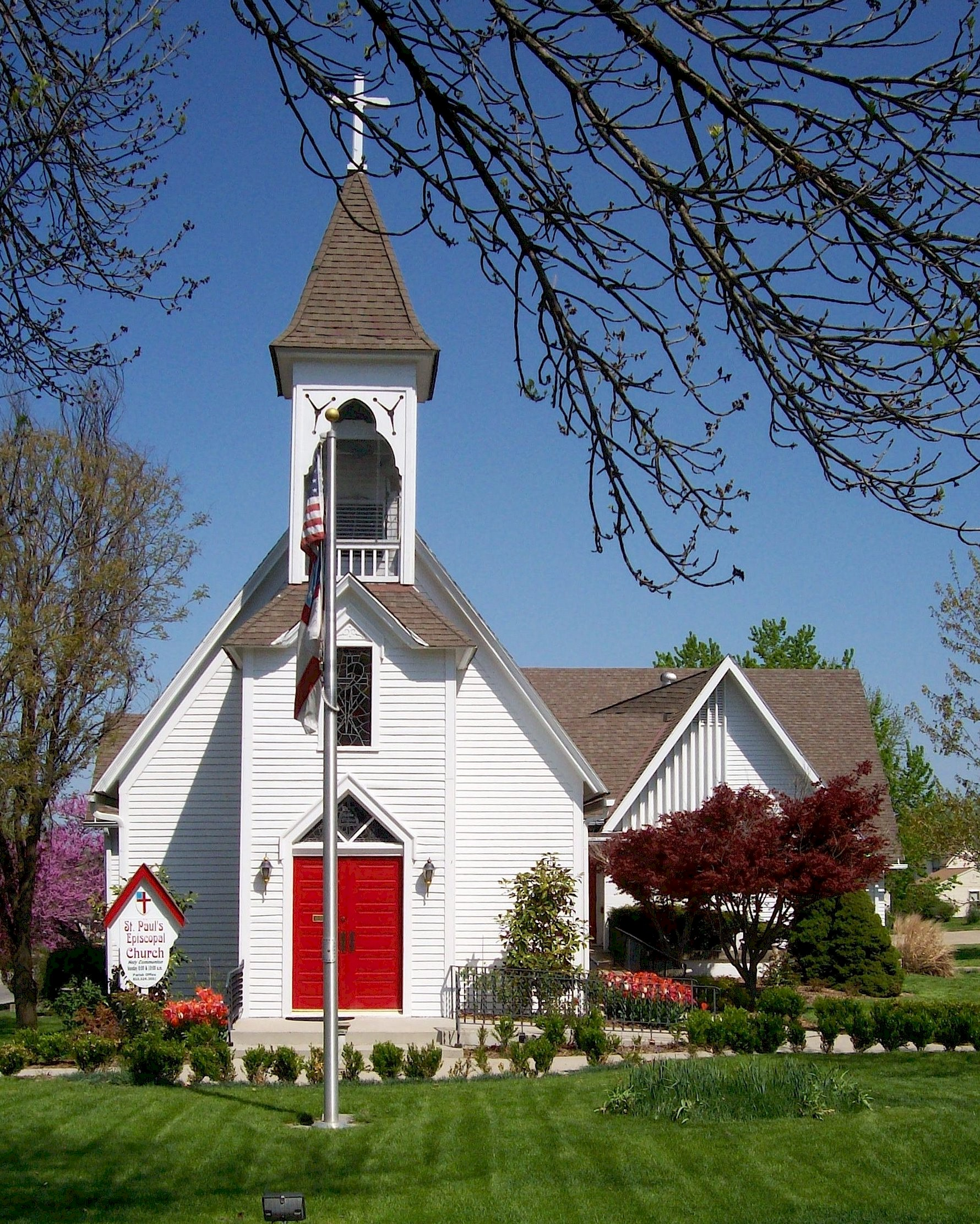 St Pauls LS MO 4 29 2008 5th Ave View